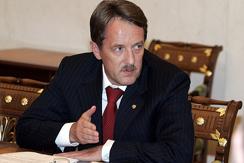 THE KREMLIN. MOSCOW. Minister of Agriculture Alexey Gordeyev